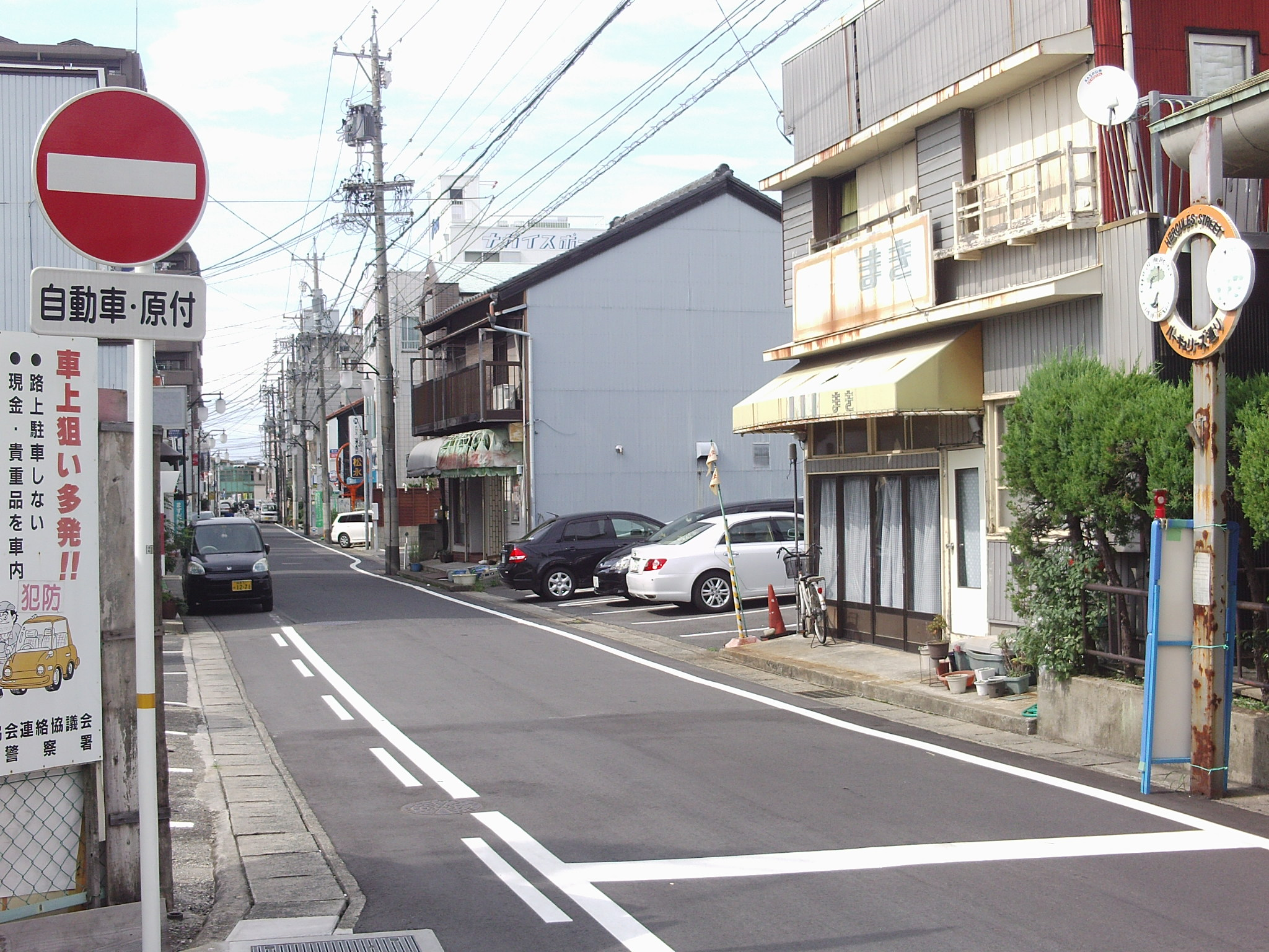 Aichi prefectural road No.118 in Imaichibacho 3-chome, Tsushima, Aichi.